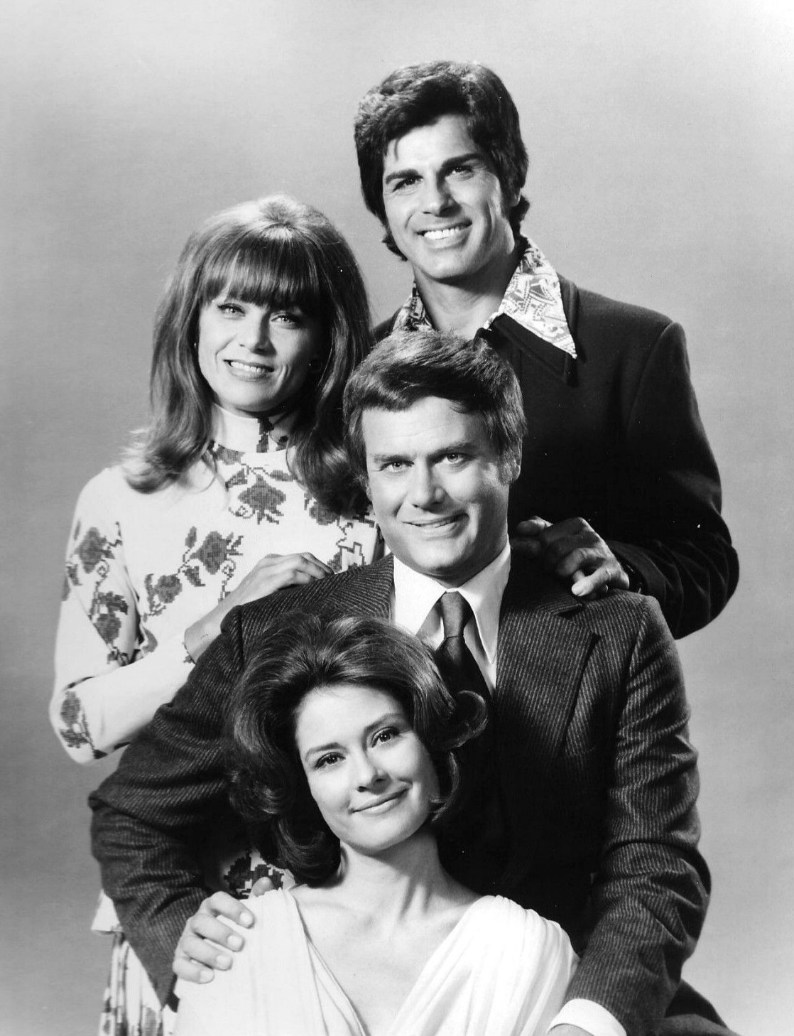 Cast photo from the television series Here We go Again. From top-Richard "Dick" Gautier, Nina Talbot, Larry Hagman and Diane Baker. The photo has no copyright markings on it as can be seen in the links above.